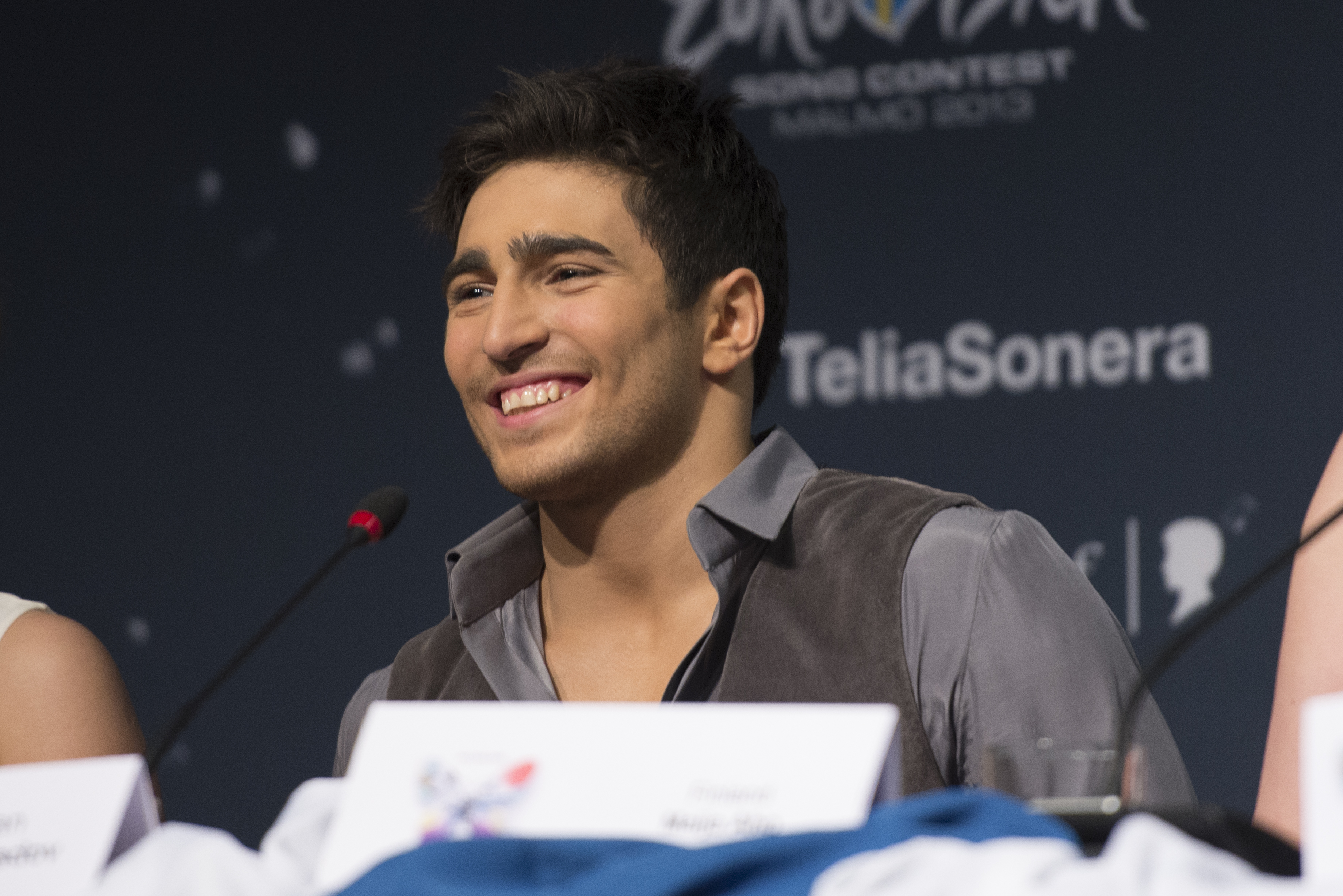 Az at a press conference during the Eurovision Song Contest 2013 in Malmö. (Help translate this text)